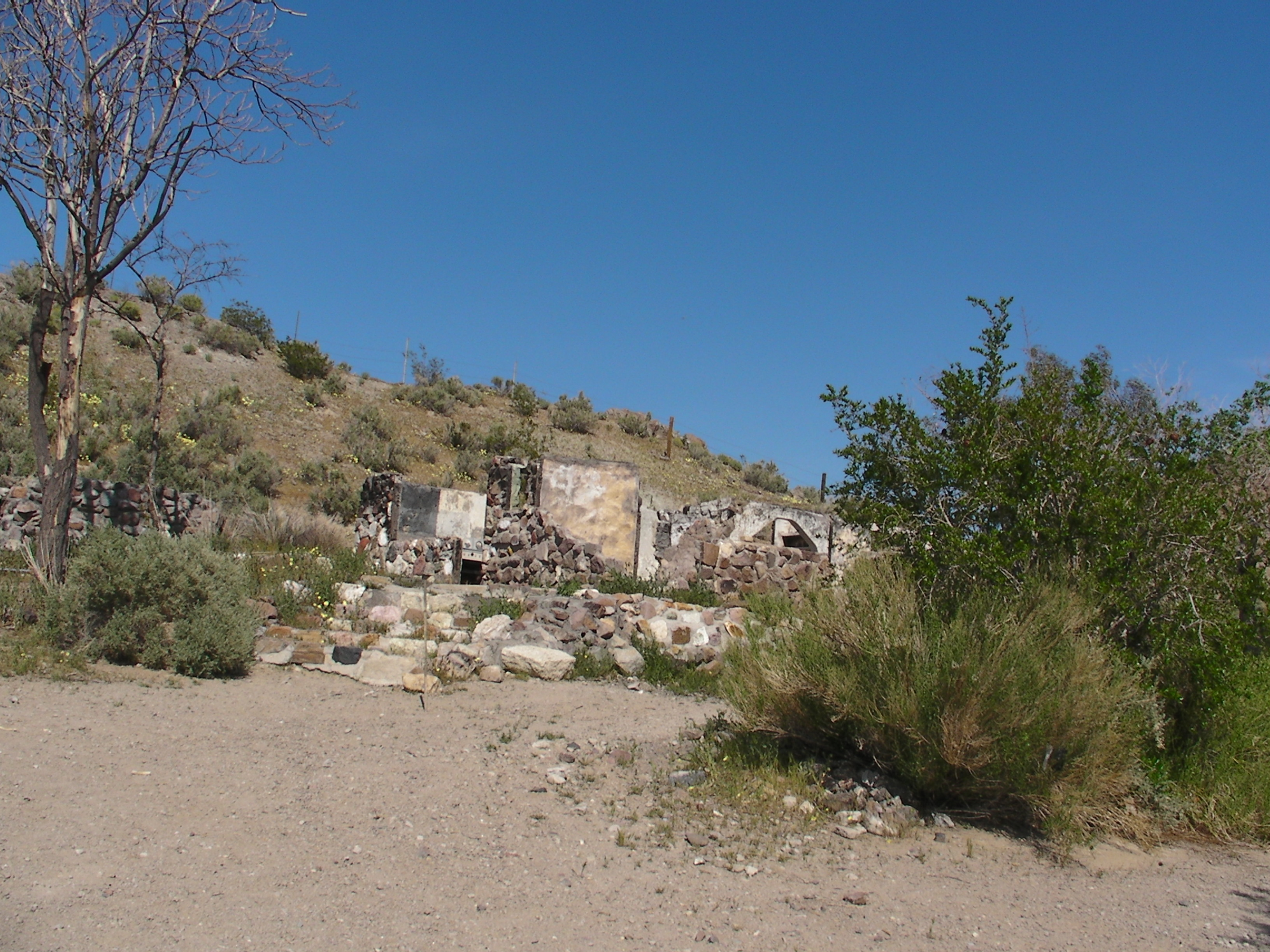 Barker Ranch after the Fire